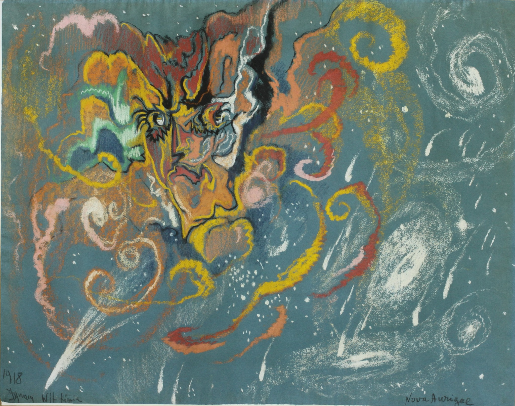 Stanisław Ignacy Witkiewicz, Nova Aurigae. Pastel on blue paper. 45,6 x 58,5 cm. Literature Museum in Warsaw